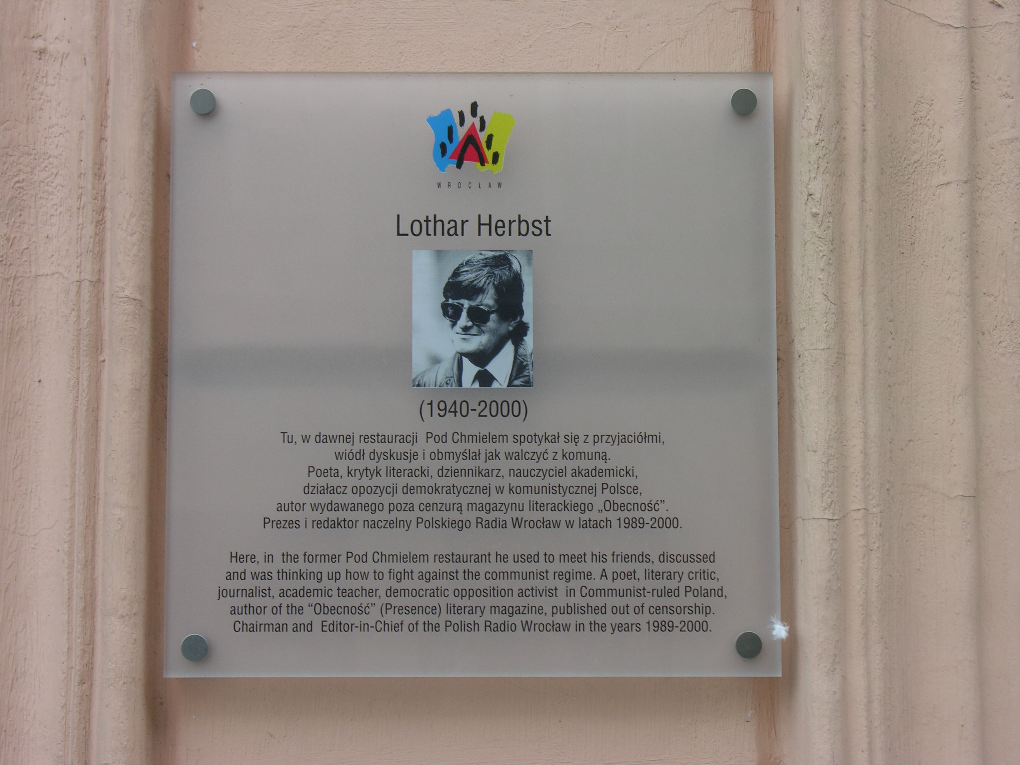 Tablica ku czci Lothara Herbsta na jego ulubionej piwiarni, Wrocław, ul. Odrzańska 17